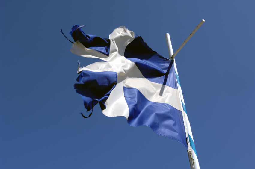 An old Greek flag waving.